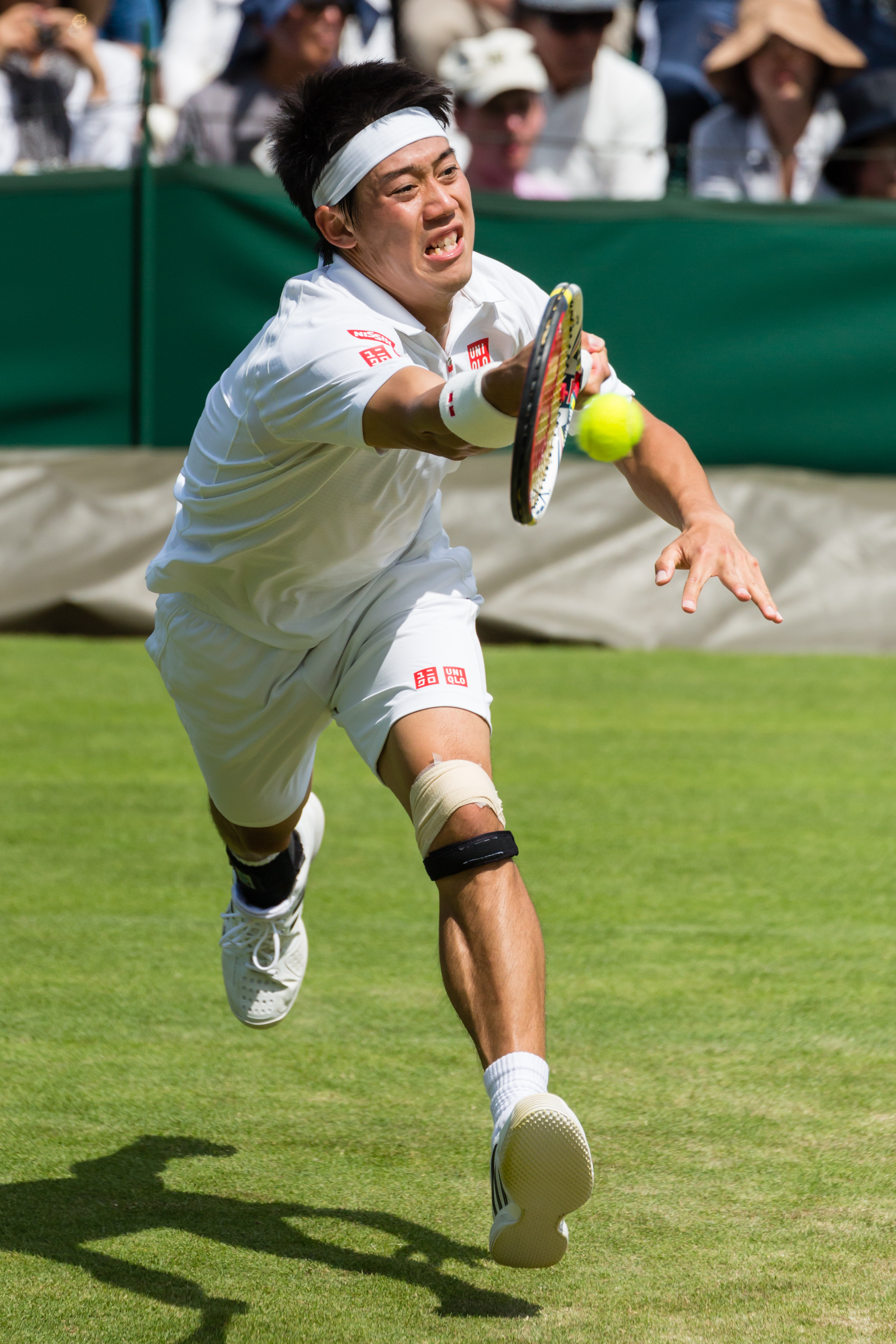 Kei Nishikori lunging for the ball in his first round match at the 2013 Wimbledon Championships against Australian Matthew Ebden.